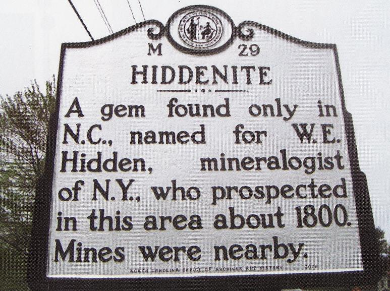 Sign upon entering the town of Hiddenite, North Carolina. Giving information about mineralogist W.E. Hidden.